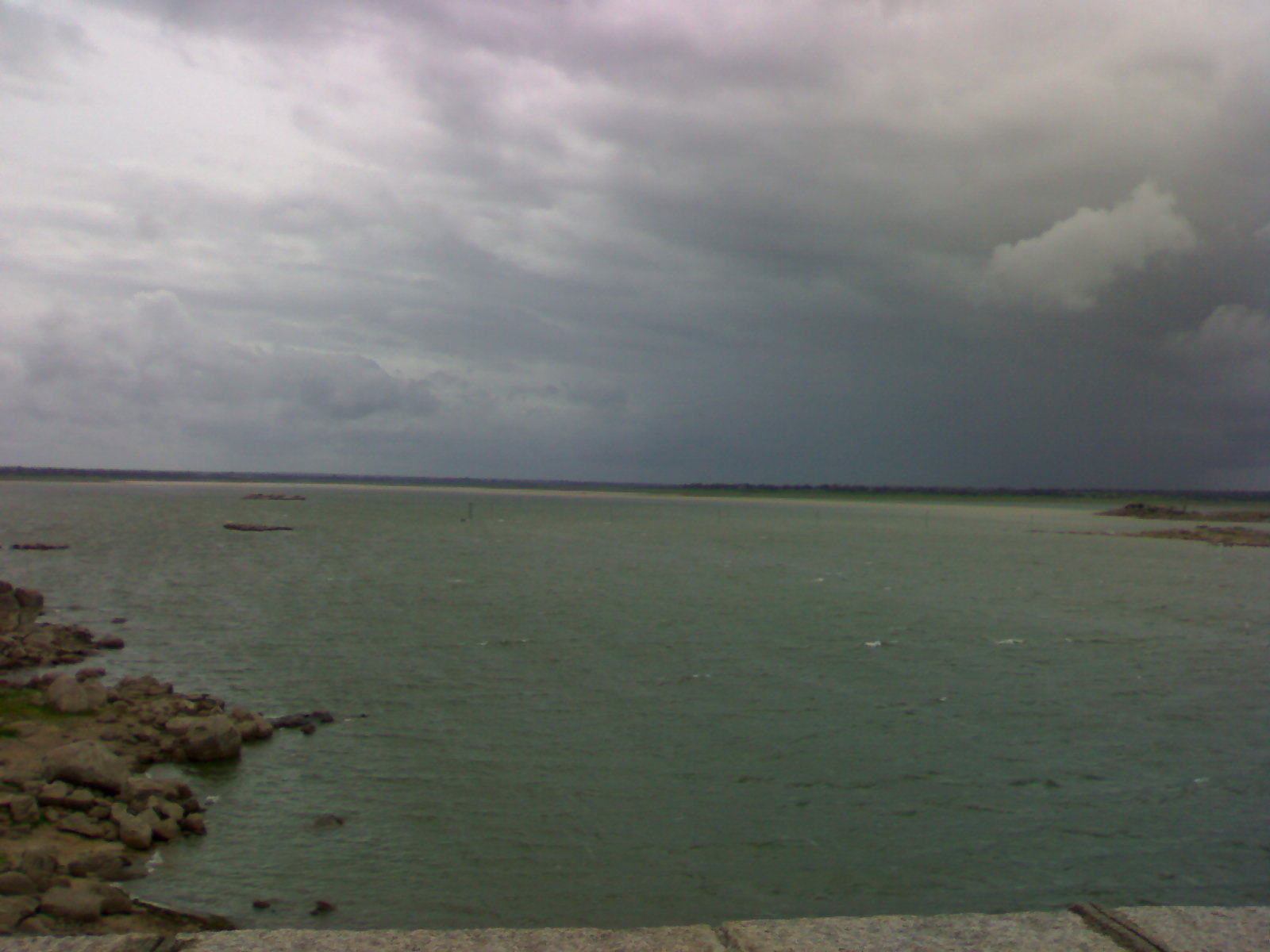 A picture of Gandipet lake in Hyderabad.tha telangana lake